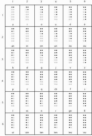 Barbier's sonography ('night writing')